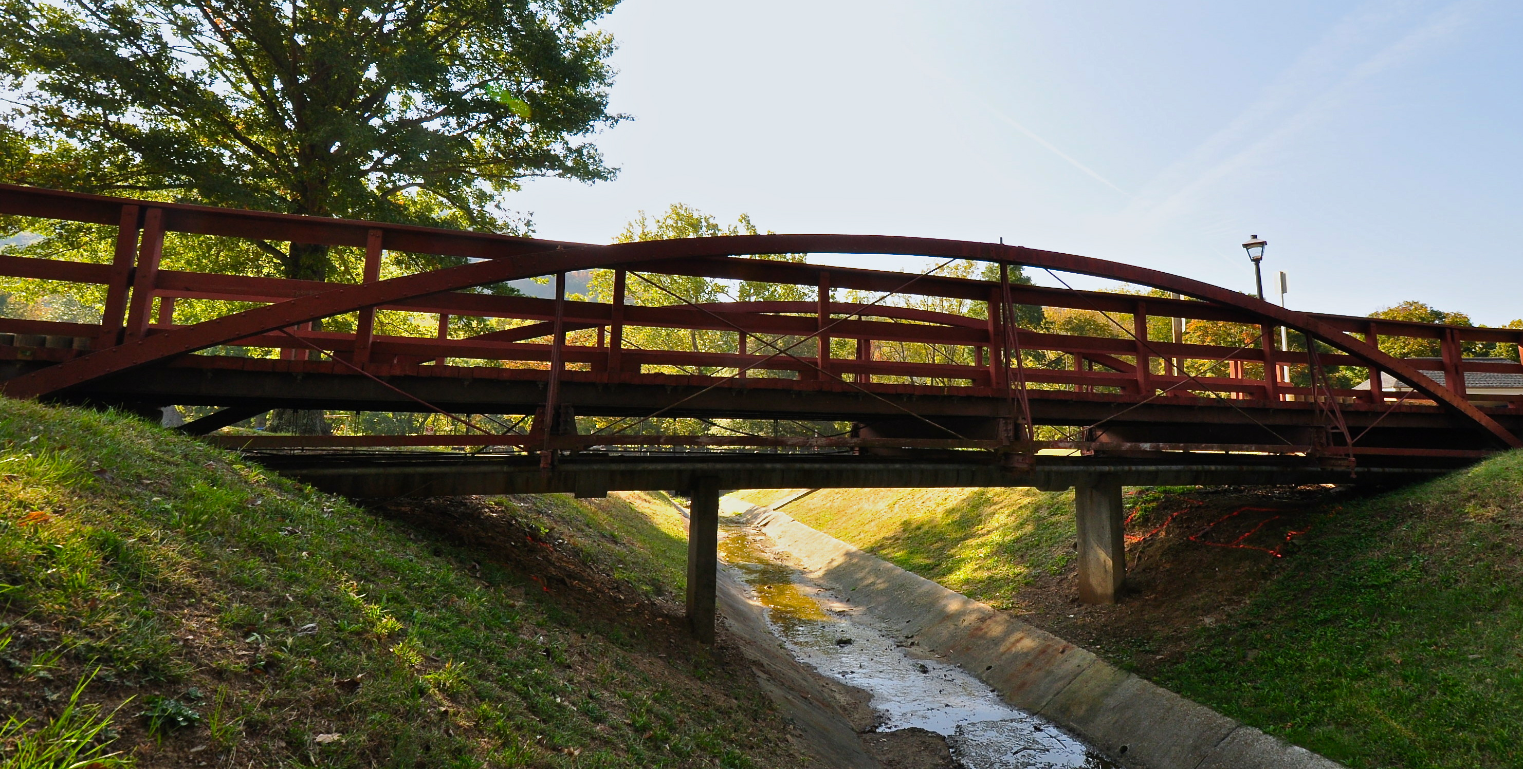 The oldest metal bridge in Virginia. Located at the Ironto Rest Area off of US Interstate 81 north.